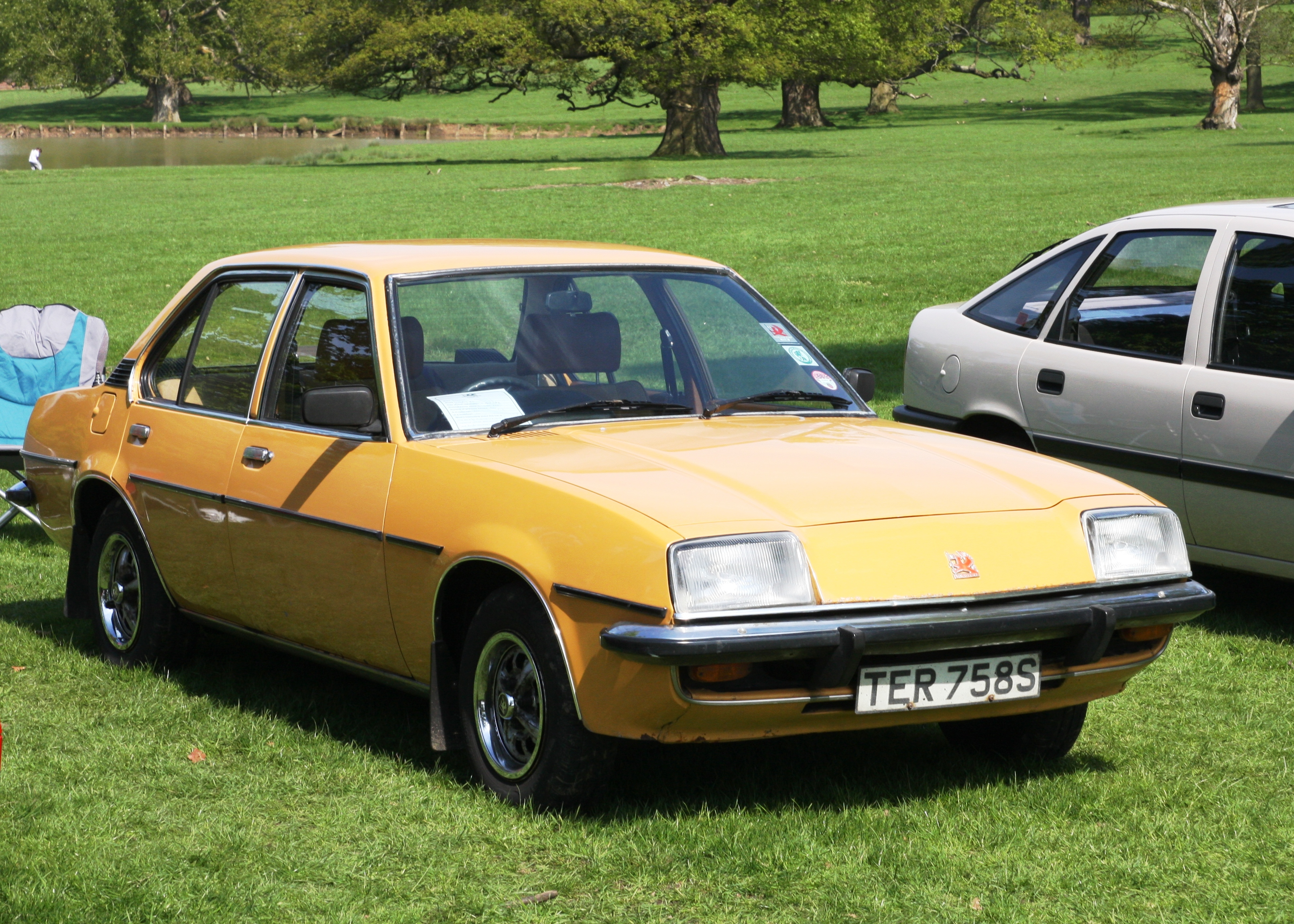 Vauxhall Cavalier (1978)